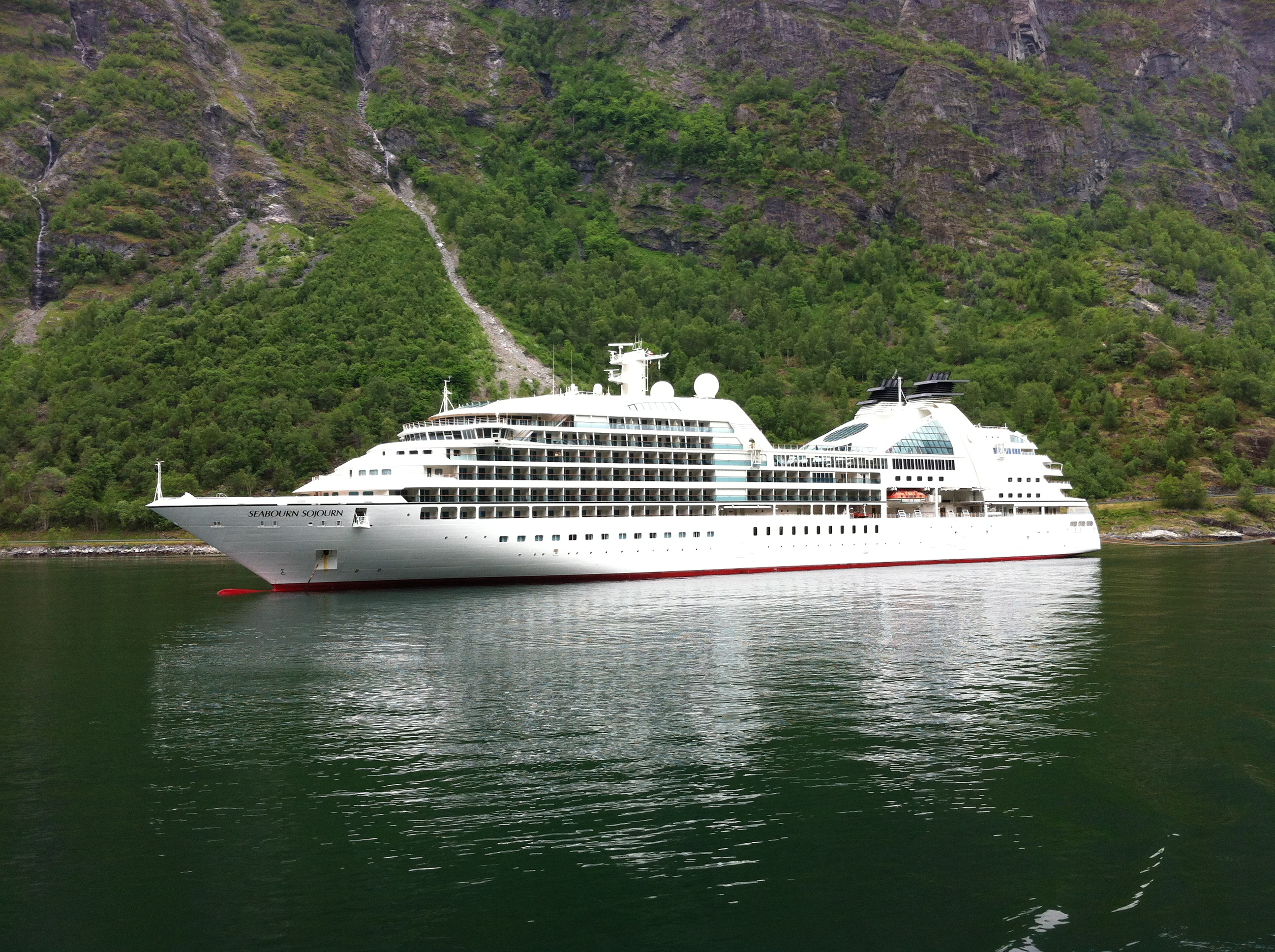 Seabourn Sojourn at Geiranger